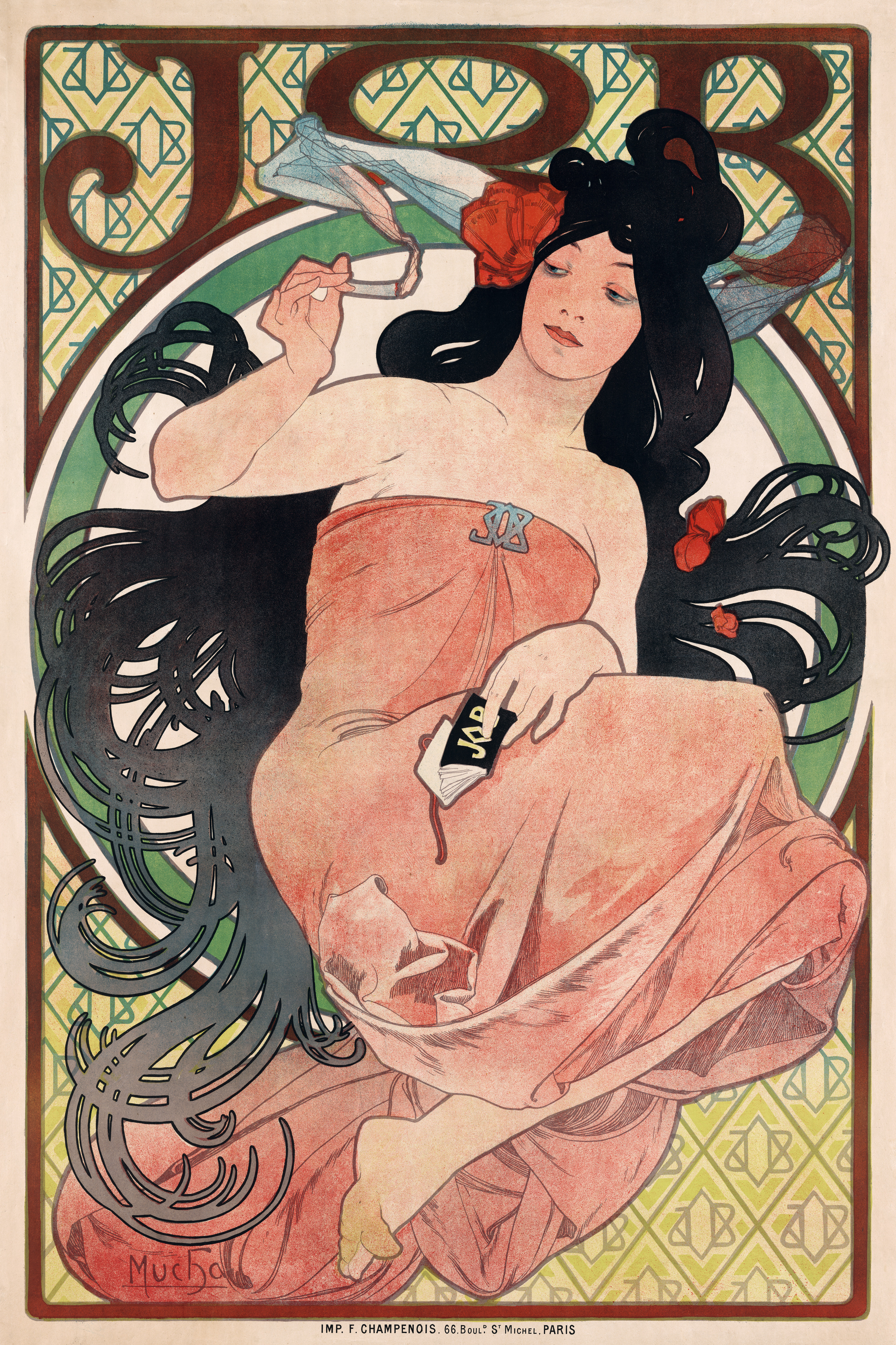 Art nouveau poster of woman, advertising JOB cigarette papers. Published in Paris by Imp. F. Champenois in 1898.